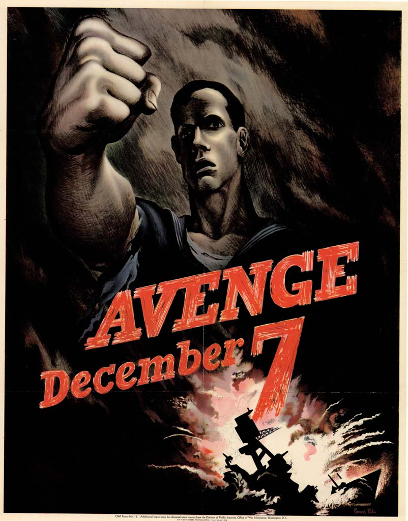 "Avenge December 7!" US Government propaganda poster of 1942.